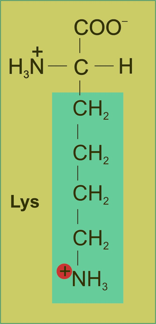 Lysine aminoacid formula jpg